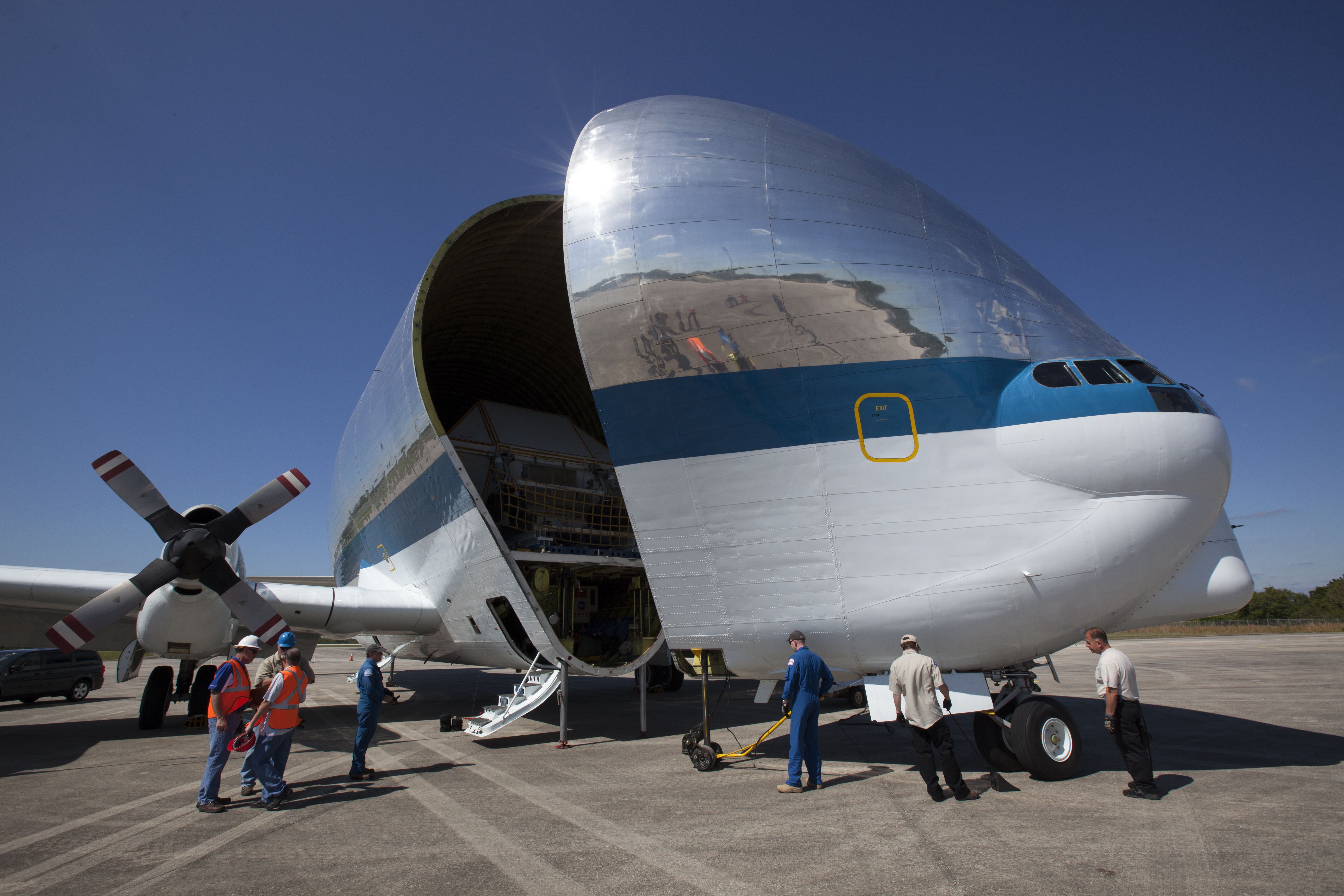 NASA ID: KSC-20170425-PH_SWW01_0205 On the tarmac at the Shuttle Landing Facility at NASA's Kennedy Space Center in Florida, the agency's Super Guppy aircraft closes after the Orion Exploration Mission-1 (EM-1) structural test article, in its transport container, is secured inside. The test article will be transported to Lockheed Martin's Denver facility for testing. The Orion spacecraft will launch atop NASA’s Space Launch System rocket on EM-1, its first deep space mission. NASA image use policy.